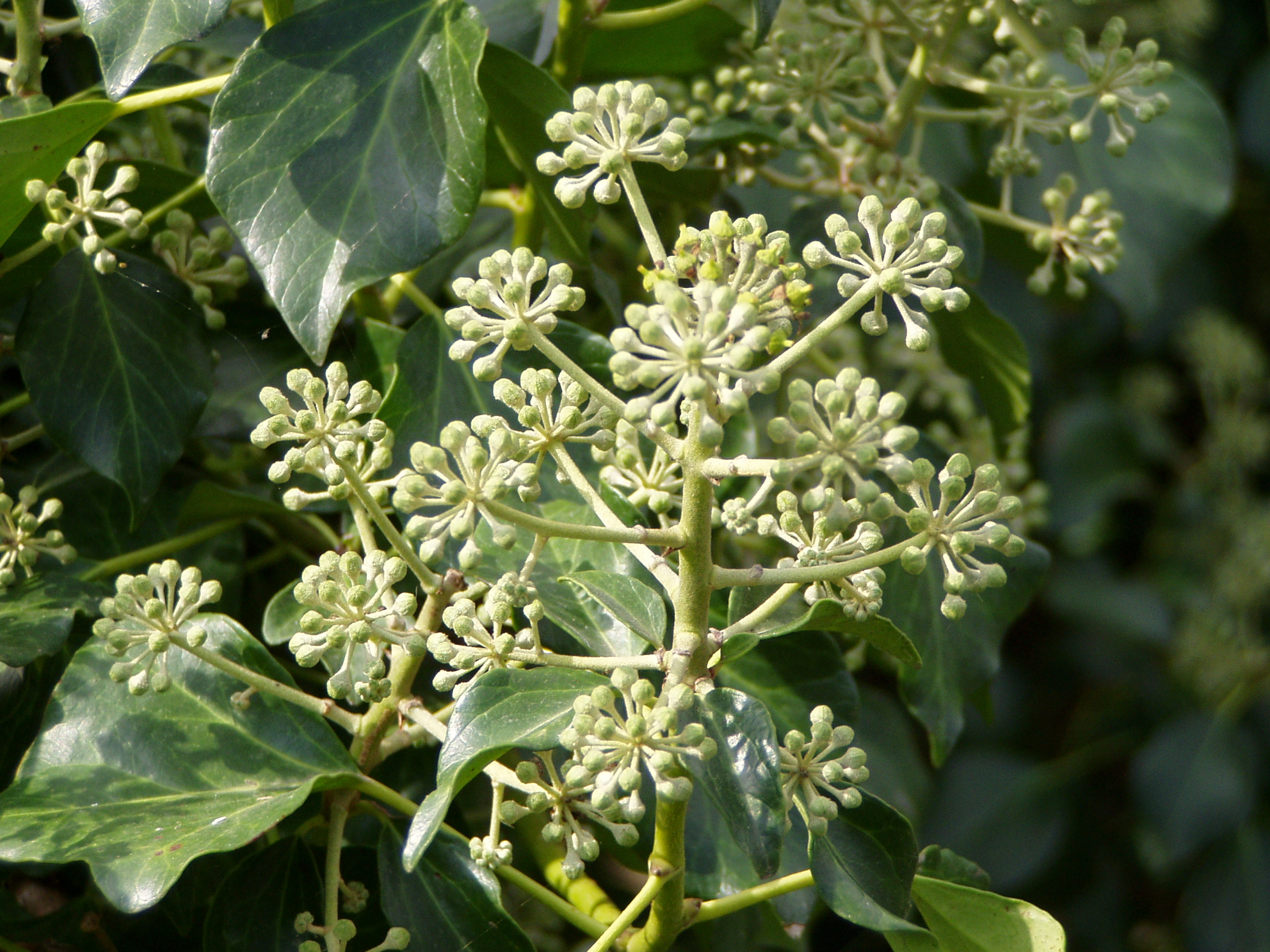 Atlantic Ivy Hedera hibernica. Flower buds. Caldas da Raínha, Portugal